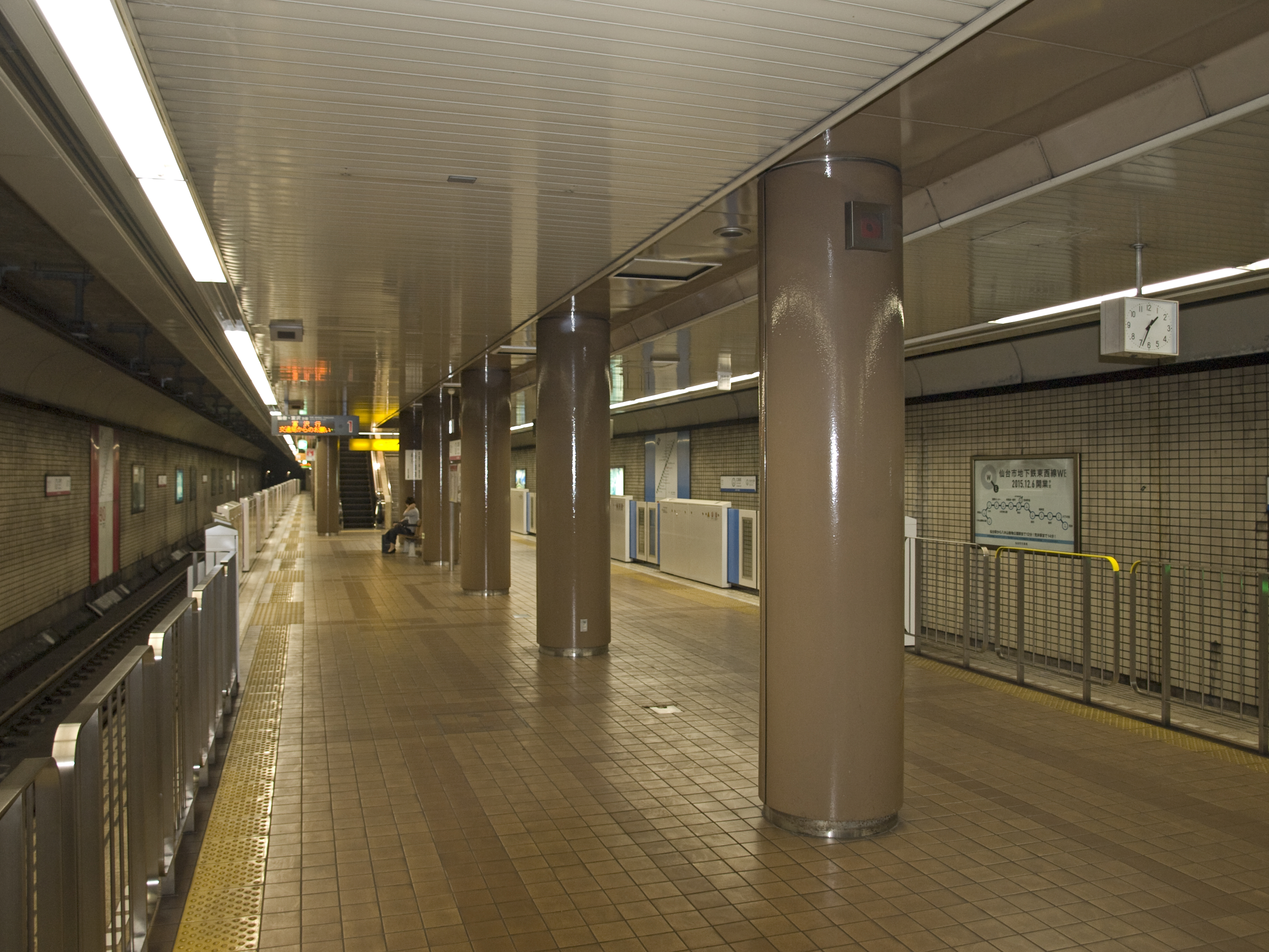 Hirose-dori station platforms, Sendai Metro